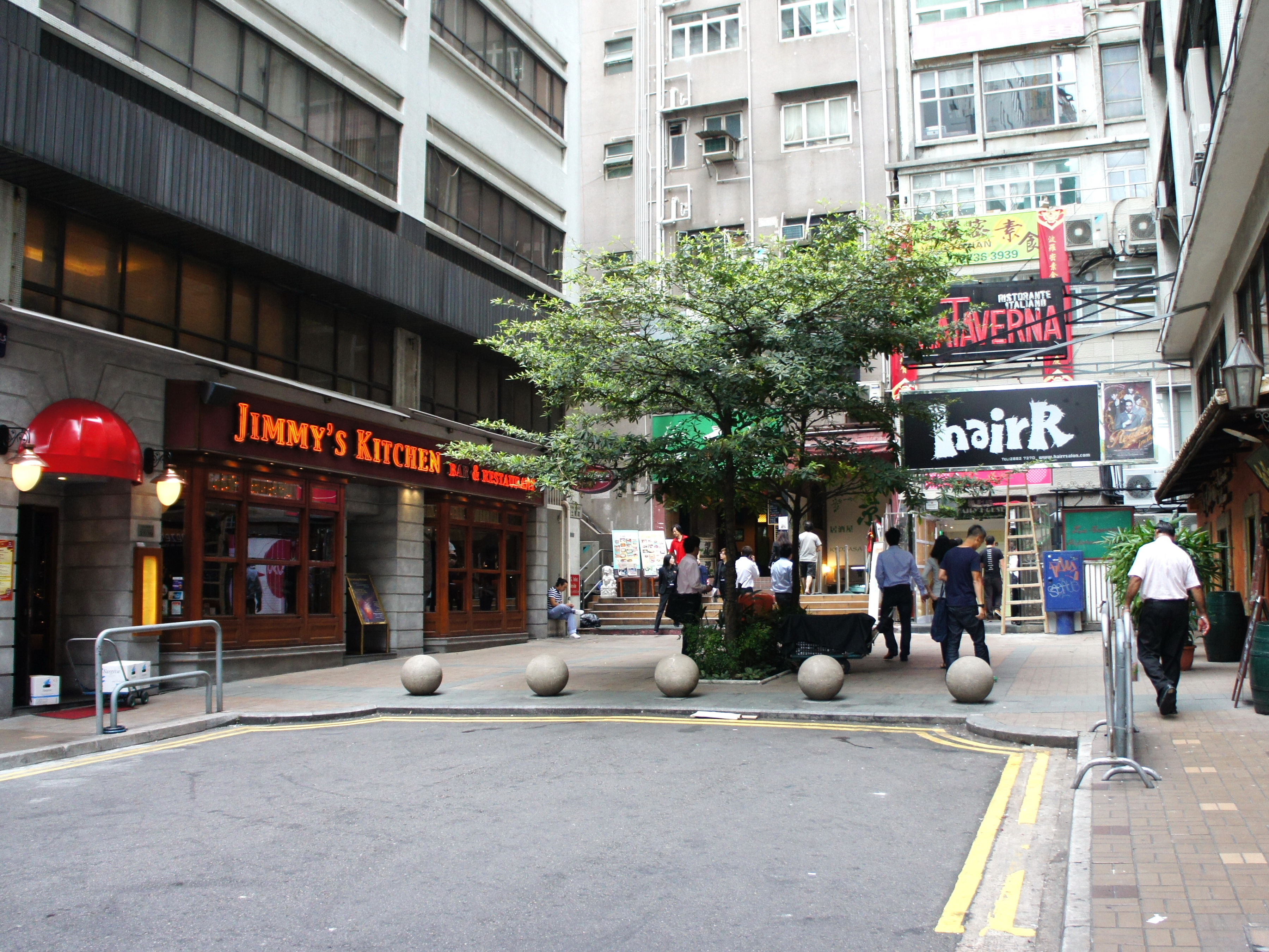 The north end of Ashley Road, Tsim Sha Tsui, Kowloon, Hong Kong.